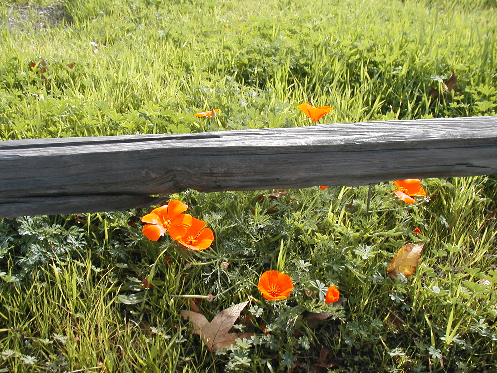 Poppies should not be blooming for another two to three months. [...] For people outside of California, poppies are our state flower and can make roadsides and hillsides glow orange in the spring time. But if you pick them (which is illegal) they wilt immediately.